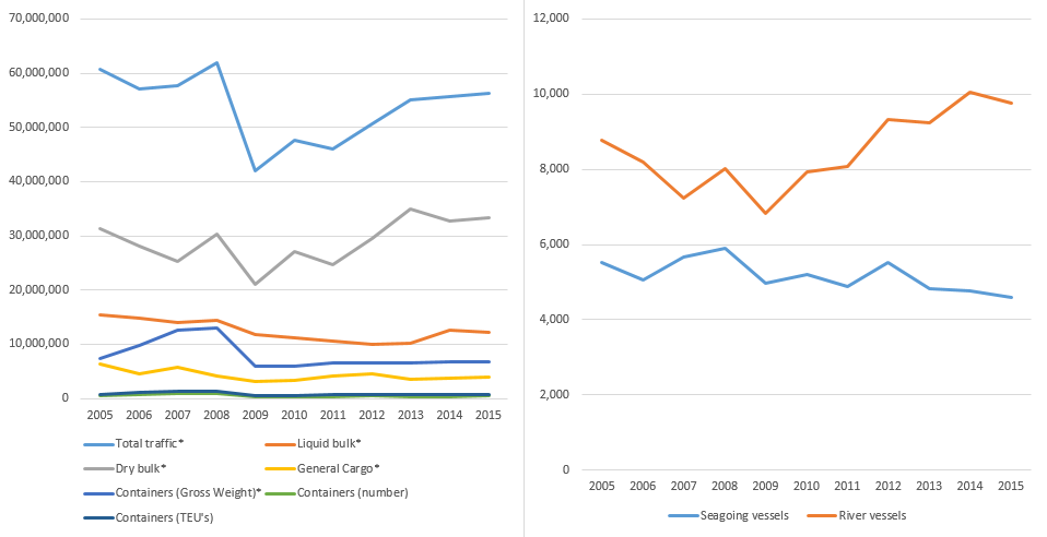 Port of Constanta, Romania statistics 2005 - 2015